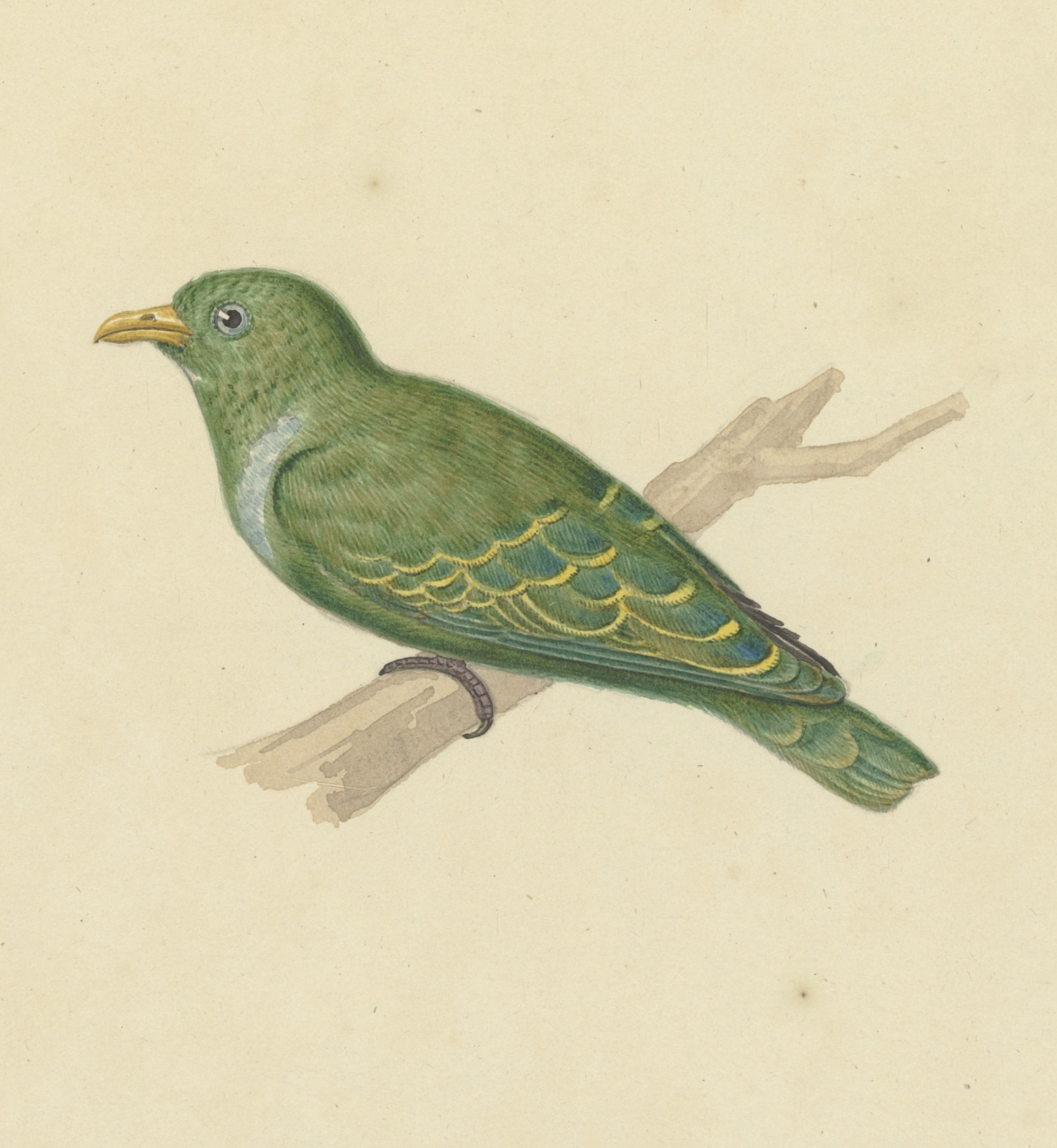 Drawing of a bird